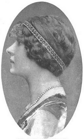 Blanche Wagstaff, from a 1918 publication. A white woman in profile, wearing a headband and pearls.